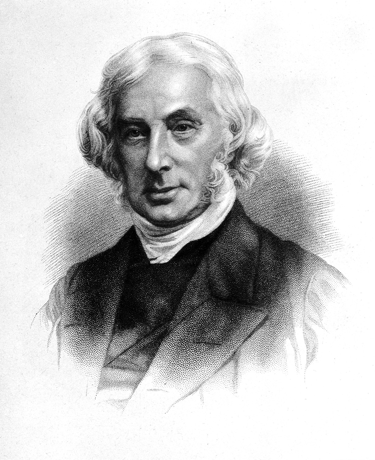 John Flint South General Collections Keywords: John Flint South